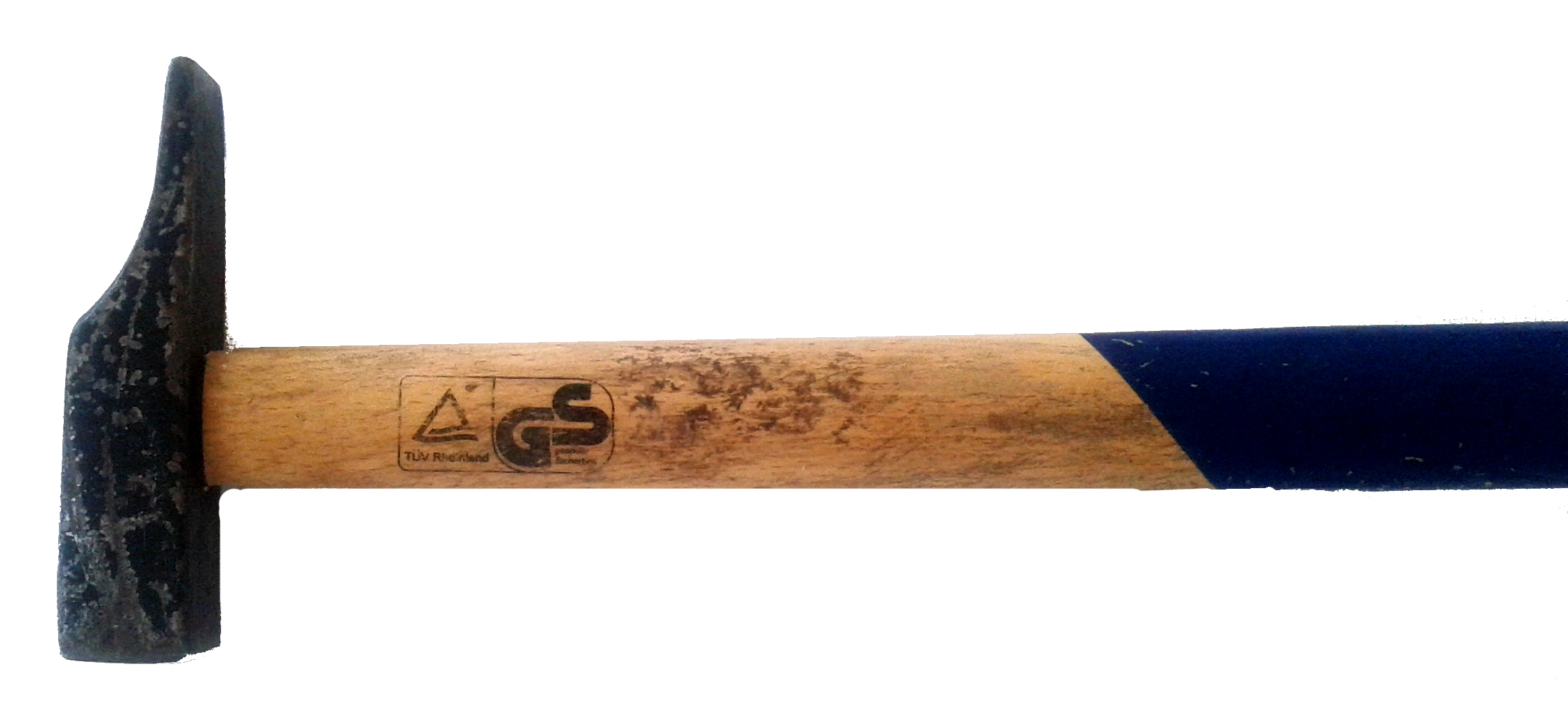 Hammer